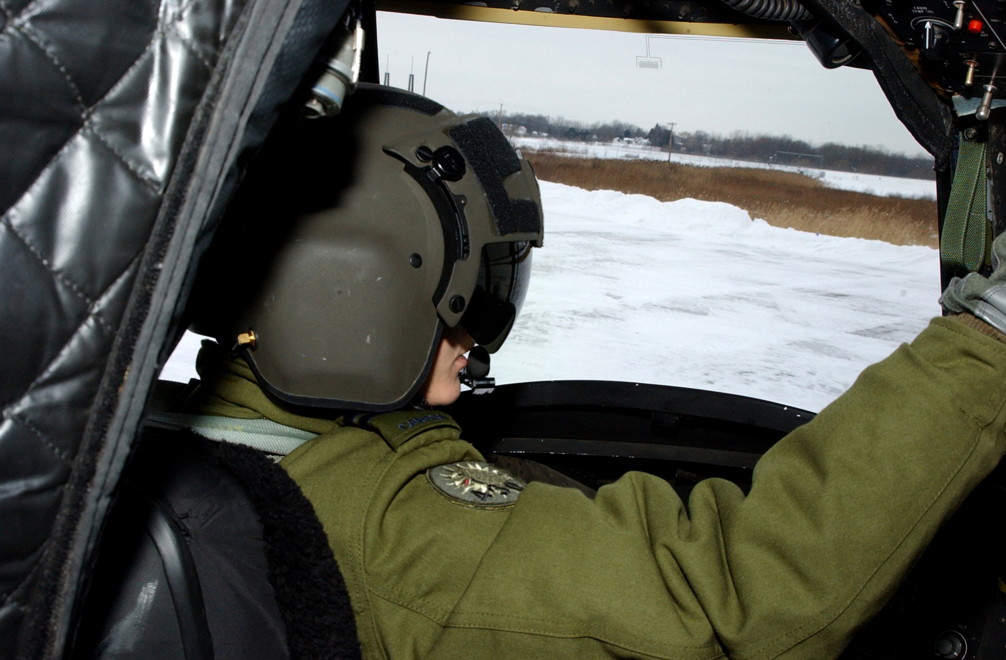 Canadian CH-47 "Chinook" pilot Capt. Sylvie Coutoure, 430th Squadron, Canadian Air Force, performs pre-flight checks at the Army Aviation Support Facility #2 here on Jan. 21 aboard a New York Army National Guard aircraft.